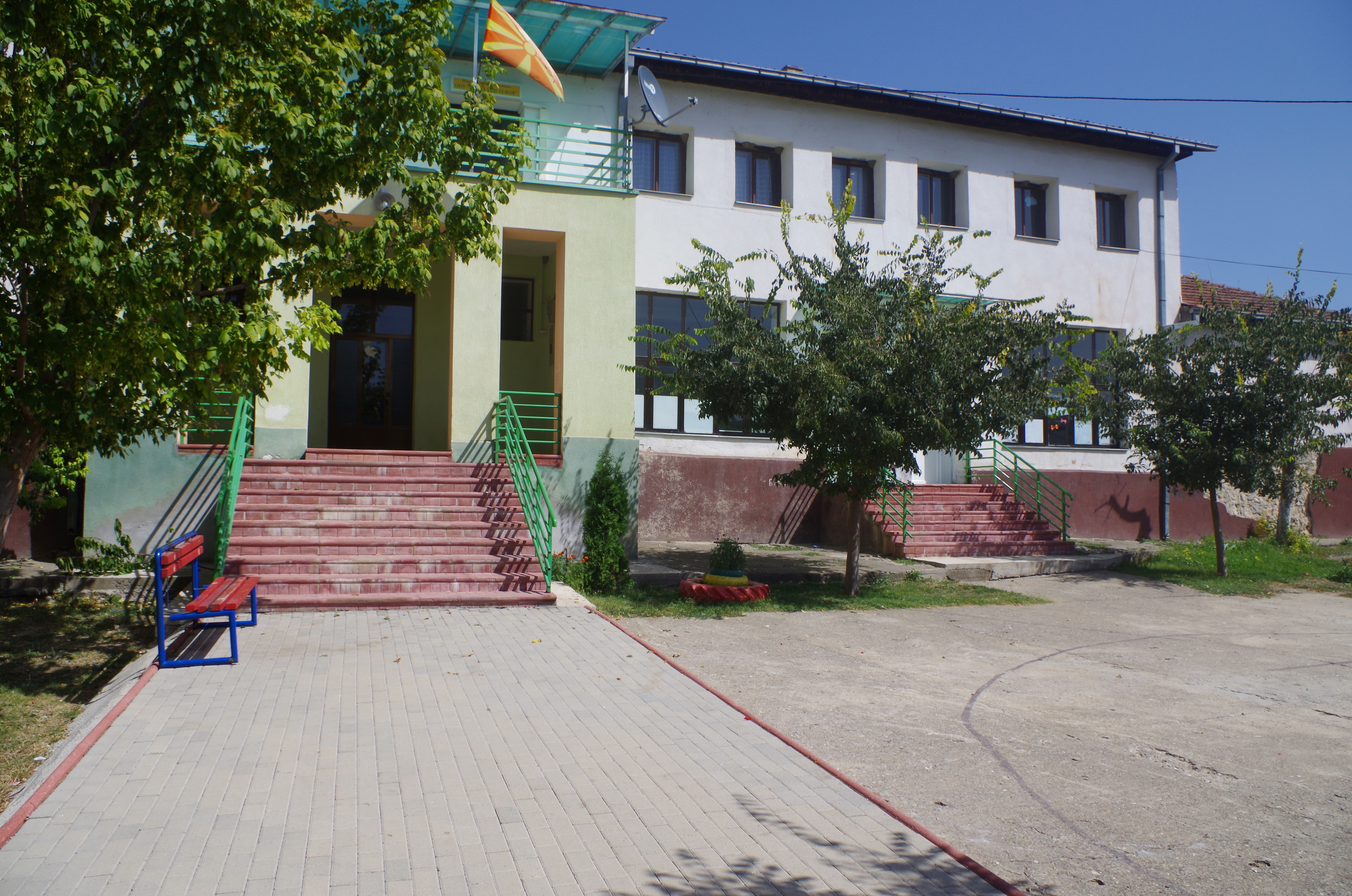 Primary school in the village of Begnište